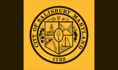 official City Flag of Salisbury, md